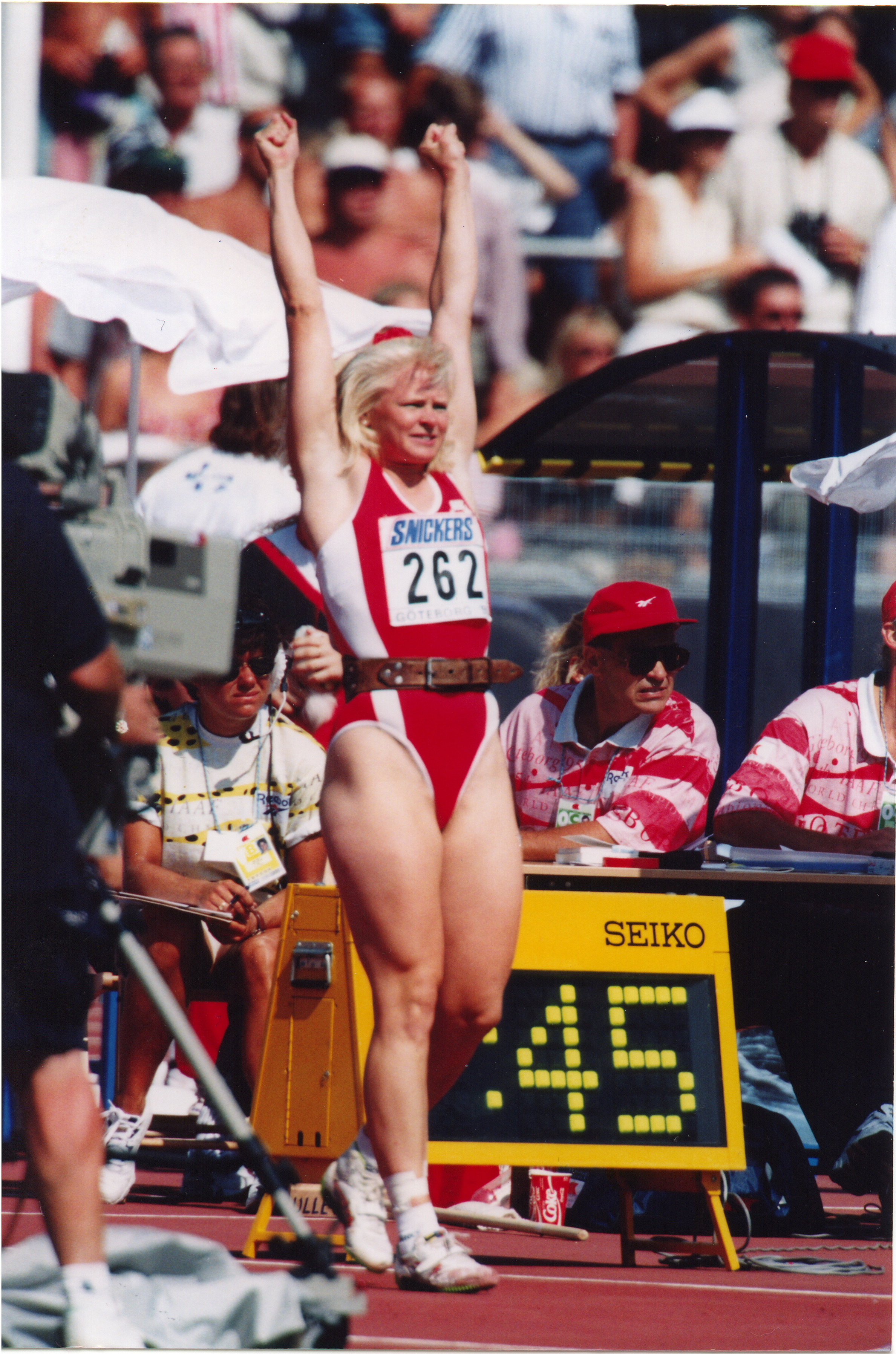 Jette Ø. Jeppesen - VM Göteborg 1995